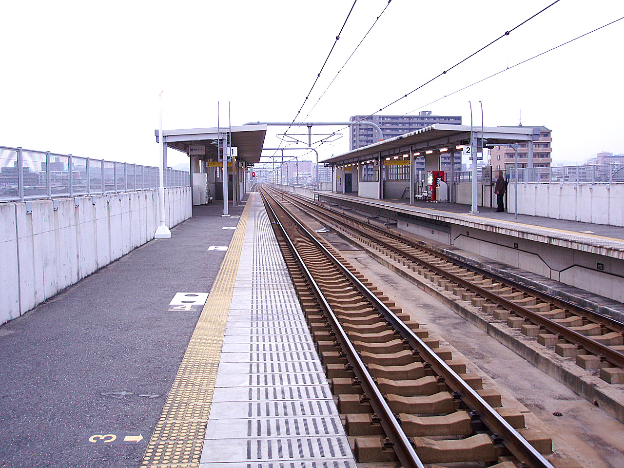 West Japan Railway Uno Line（Seto-Ohashi Line） Omoto Station Platform 西日本旅客鉄道 宇野線（瀬戸大橋線） 大元駅駅ホーム